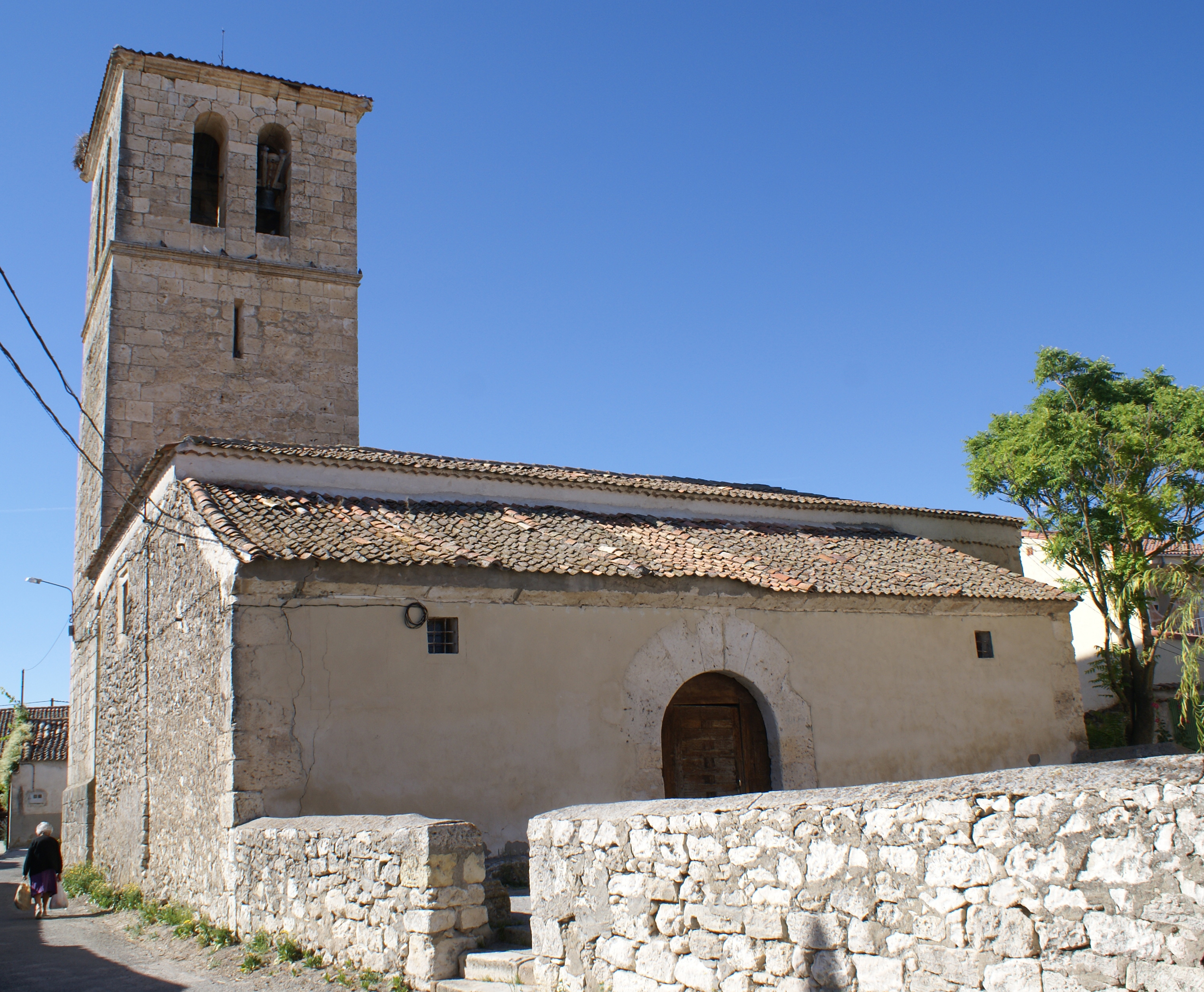 Church of Perosillo, province of Segovia, Castile and León, Spain.